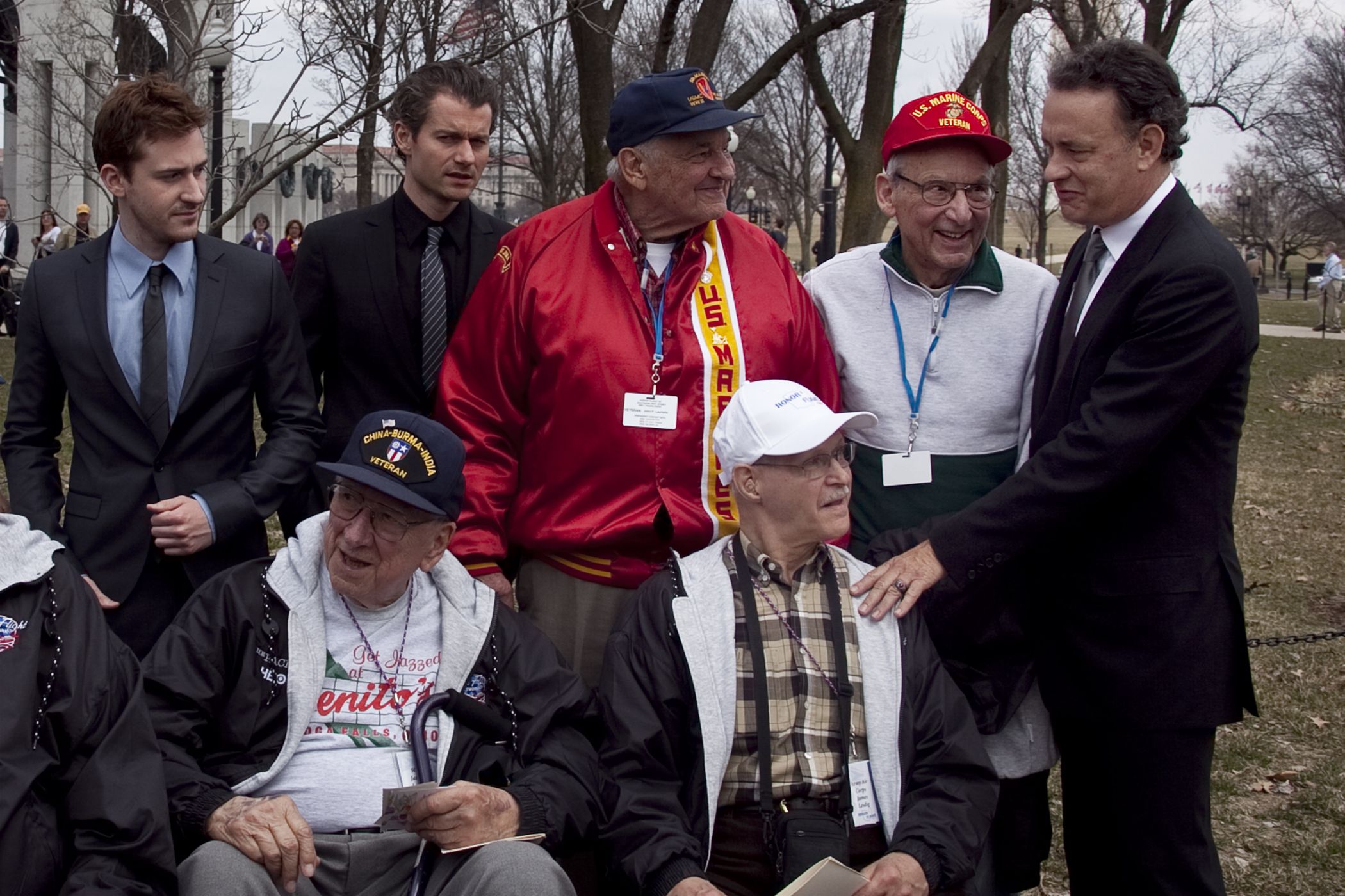 Tom Hanks, executive producer of Home Box office’s “The Pacific” thanks World War II veterans for their service in the Pacific campaign after a ceremony in their honor March 11. More than 200 veterans were flown in by Honor Flight Network, a non-profit organization that offers trips to the capital for military veterans. “The Pacific” is a Home Box Office miniseries following three Marines during the Pacific campaign.